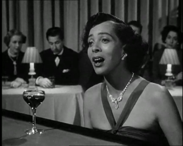 Screenshot from trailer for the movie In a Lonely Place (1950), featuring stars Gloria Grahame and Humphrey Bogart. Hadda Brooks as the singer of "I Hadn't Anyone Till You", written by Ray Noble and performed by Hadda Brooks.